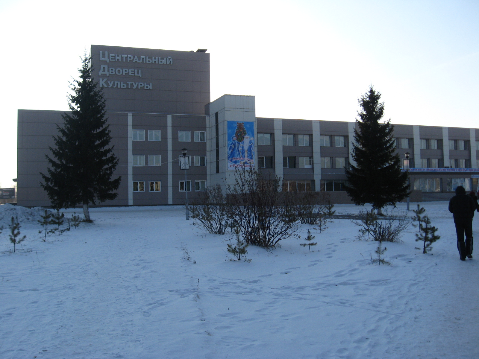 Central Palace of Culture in Belovo Kemerovo region